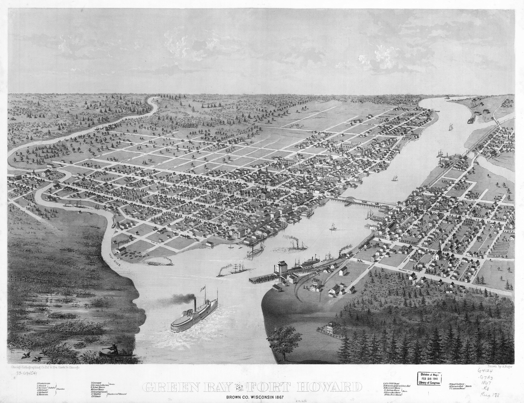 Bird's eye illustration of Green Bay, Wisconsin, USA. Circa 1867.